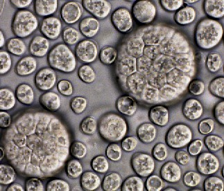 Flickr description Sphaeroforma arctica, single cells and colonies. DIC. Picture taken by Iñaki Ruiz-Trillo.